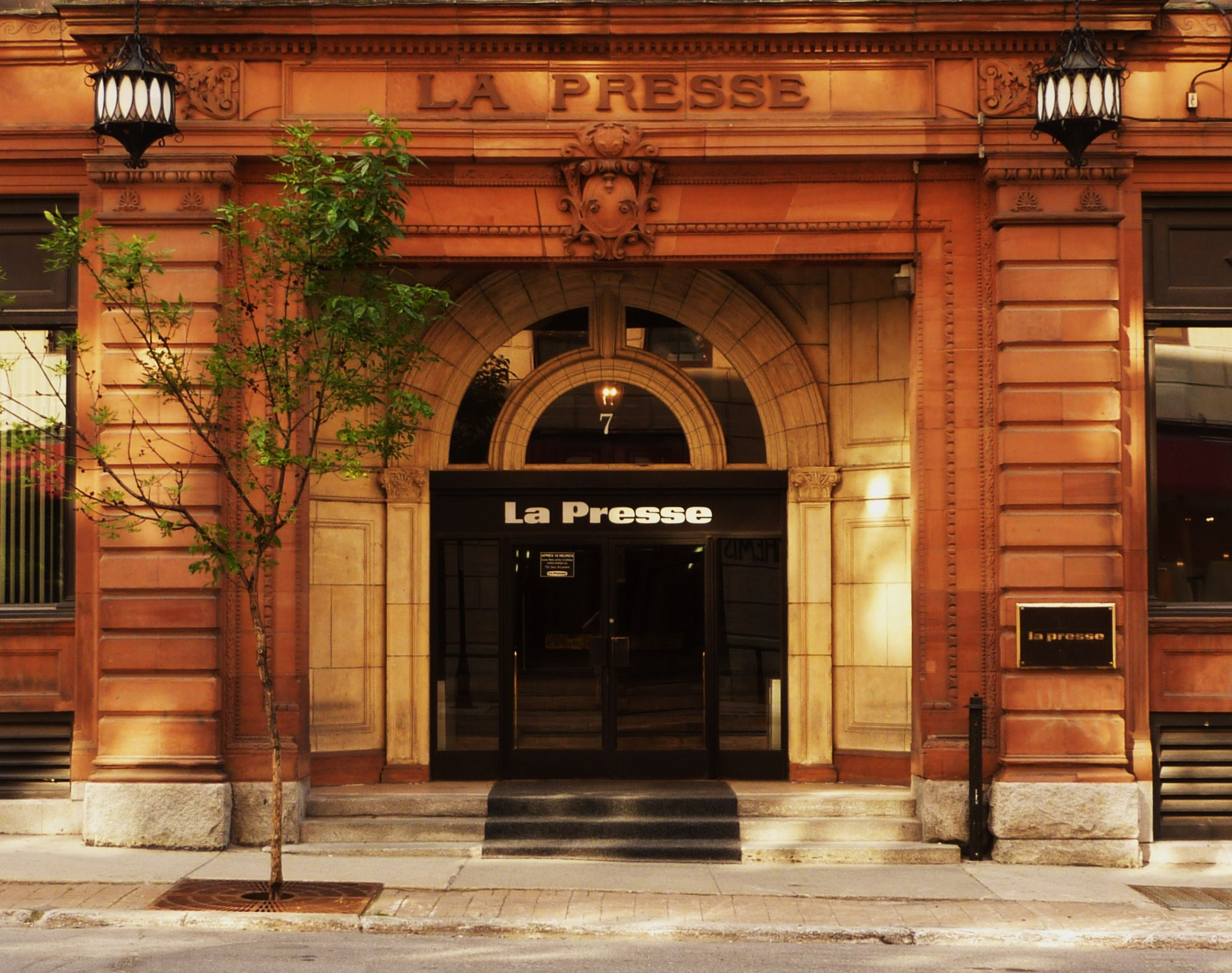 The offices of the La Presse newspaper at 750 Saint-Laurent Blvd. in Montreal, Quebec, Canada, completed in 1900. A modernist wing of the building (not shown) was completed in 1959.